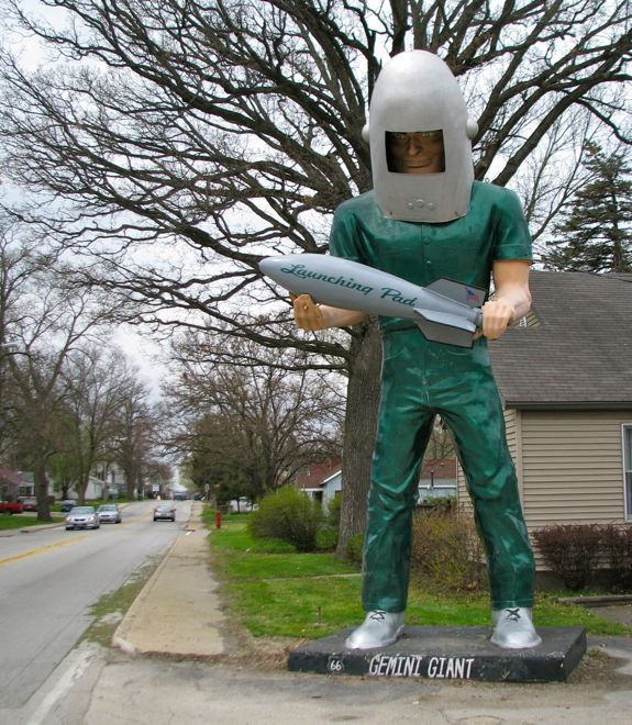 The famous Gemini Giant outside the Launching Pad Cafe on Route 66 in Wilmington IL.